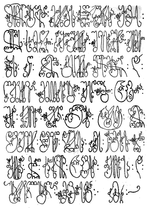 Examples of Georgian monograms from Brosset (Marie-Félicité, M.), Mémoires Inédits, Relatifs l'Histoire et à la Langue Géorgiennes. Roissy, 1833